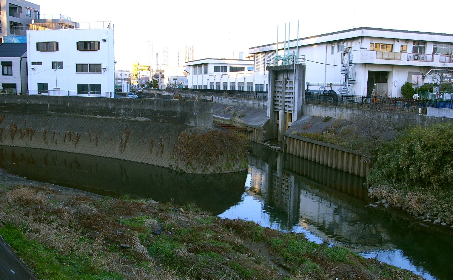 This picture taken by me in May, 2008 Kanagawa Japan.